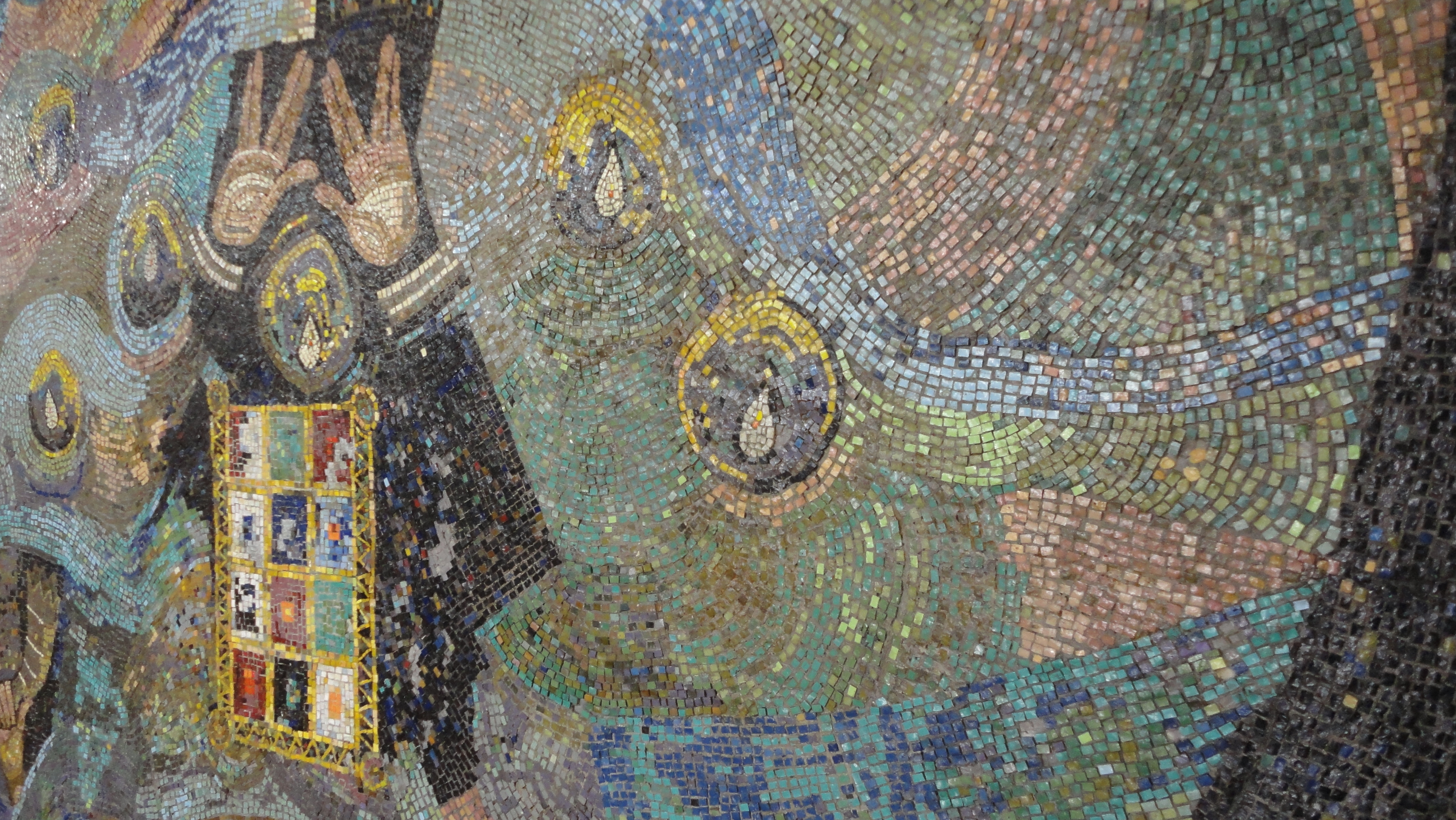 Nachum Gutman, 1961, House of the Chief Rabbinate, Tel Aviv-Yafo